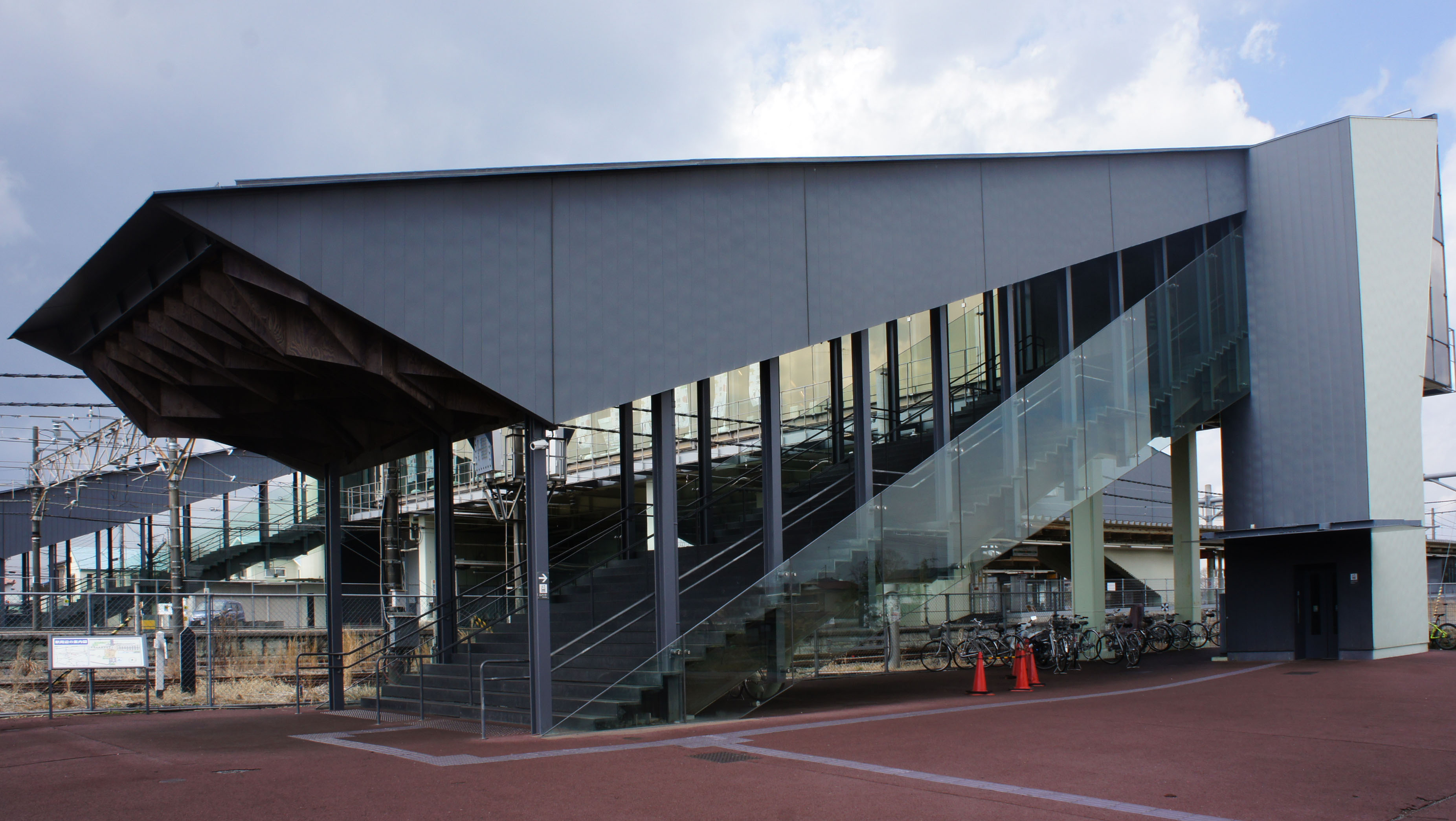 East Exit of JR Tohoku-Main-Line/Karasuyama-Line Hōshakuji Station Sony NEX-3